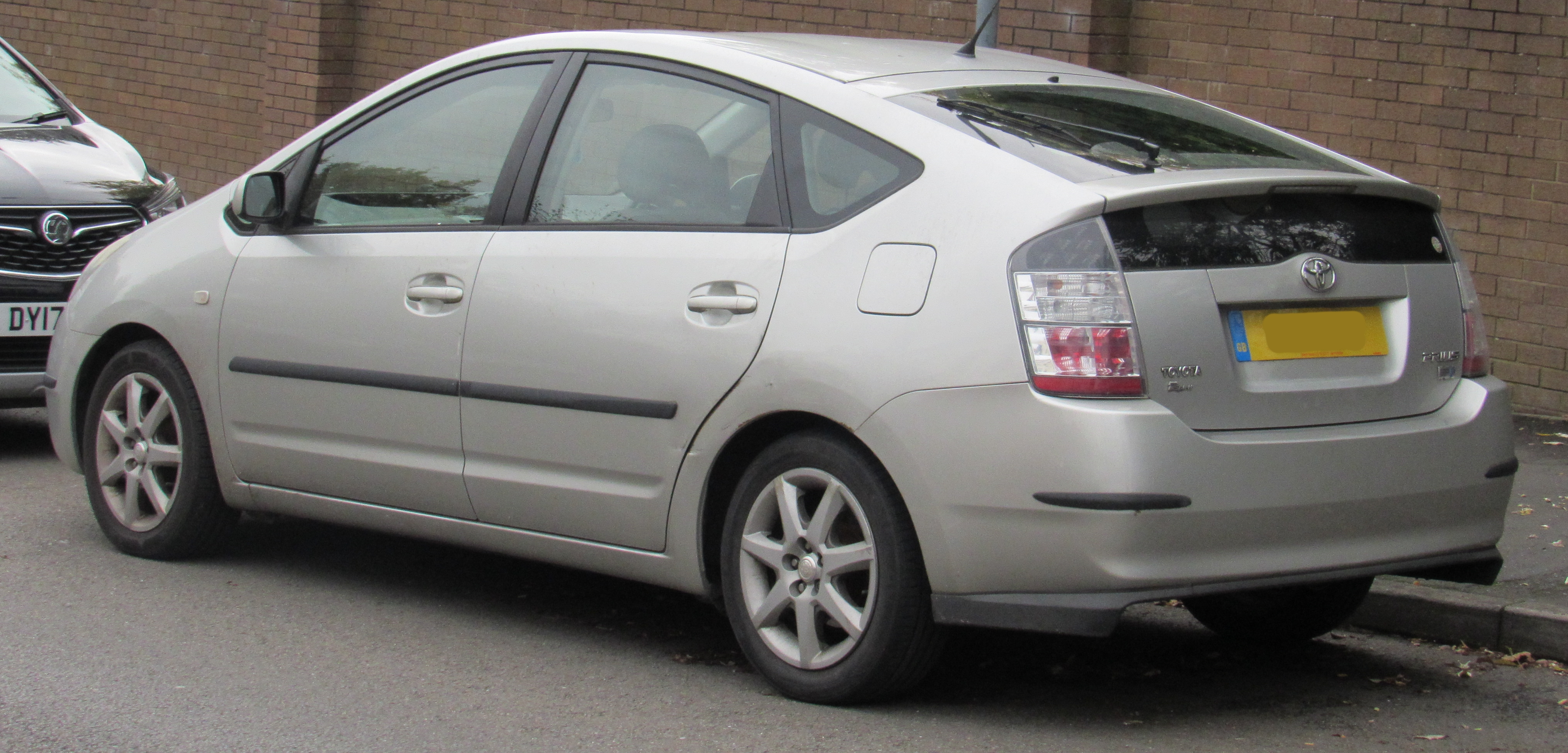 2005 Toyota Prius T Sprint VV-I Automatic 1.5 Rear Taken in Leamington Spa